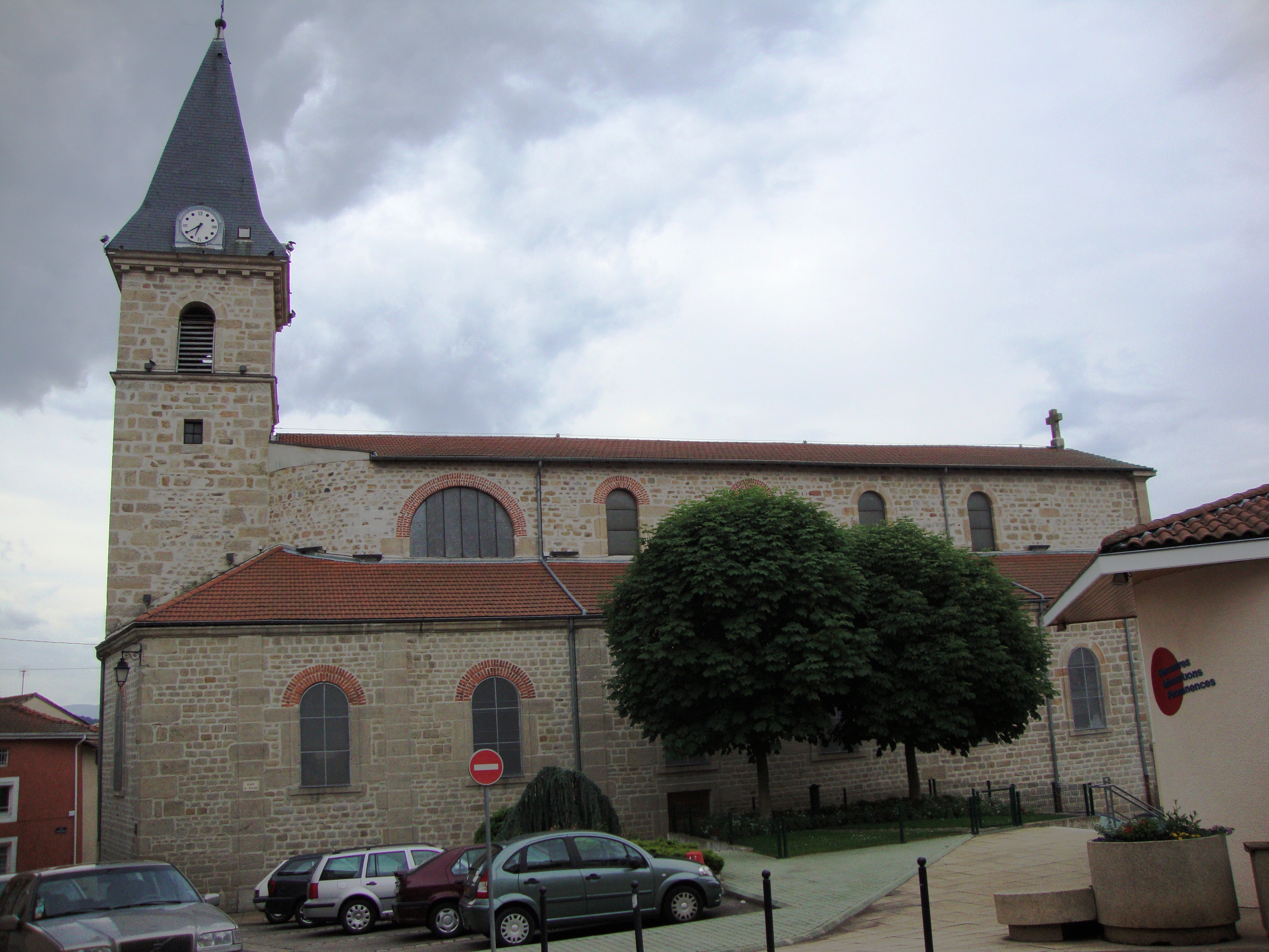 La Fouillouse (Loire, Fr) church